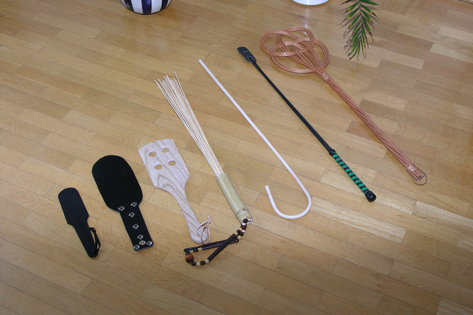 Different implements for spanking purposes